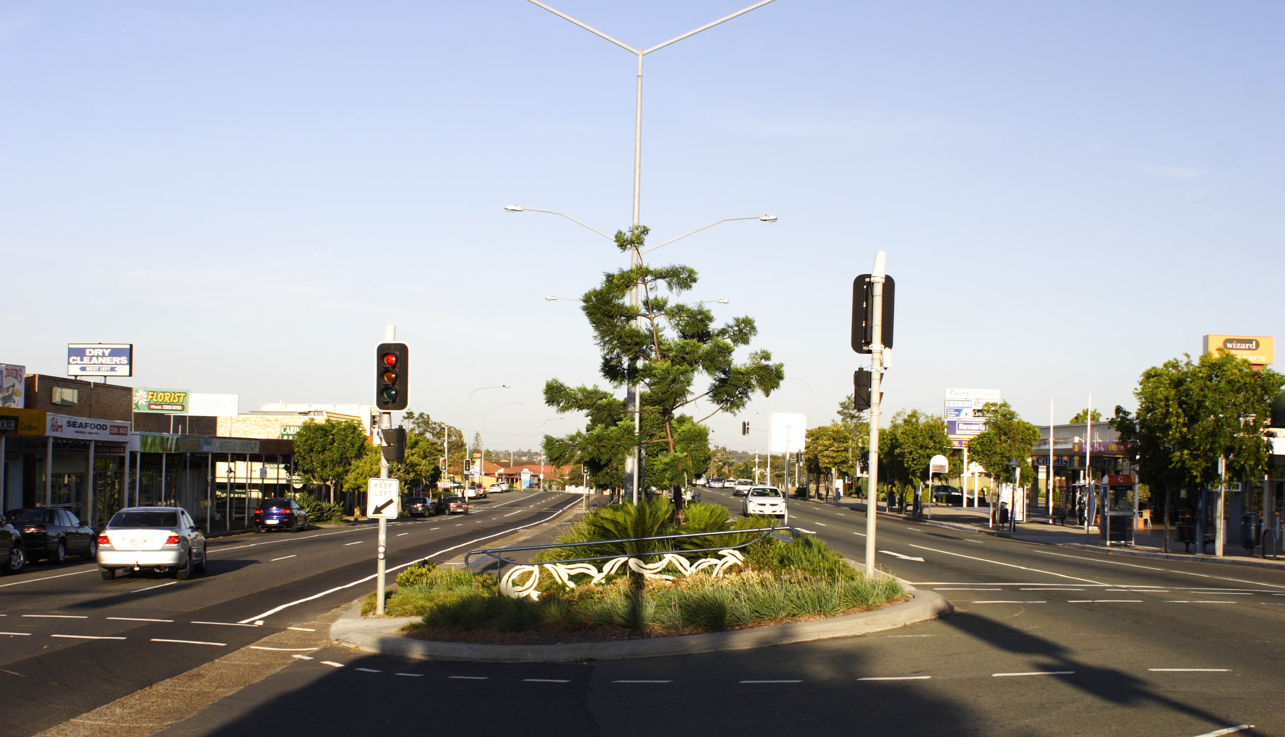 Intersection of Old Clevelend Rd and Jones Road, Carina.